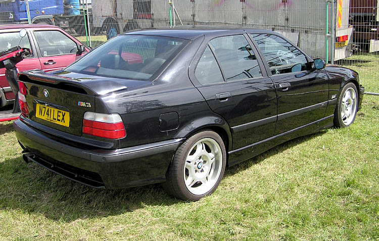 BMW M3 at Bristol Car Show on The Downs, Bristol, England. Taken by Adrian Pingstone in June 2004 and released to the public domain.